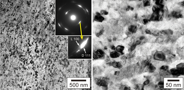 (a) Schematic illustration of FIB processing. (b) Bright-field TEM image and corresponding ED pattern of #05 sample. (c) Magnified image of (b). (d) TEM image and corresponding ED pattern of #06. (e) Magnified image of (d) showing distinct moiré fringes (indicated by arrows). (f) High-resolution TEM image of the grain showing moiré fringes, characteristic of nanoscale rotational deformation feature